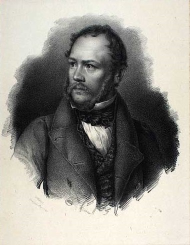 Ulrich Hunold Hermann von Baudissin (1816-1892), German count, Danish army officer and landscape painter